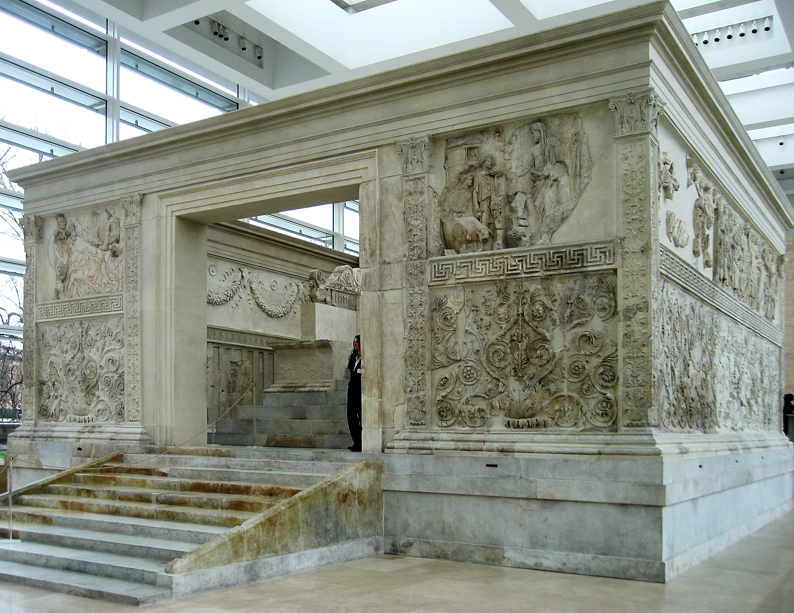 Ara Pacis in Rome/Italy